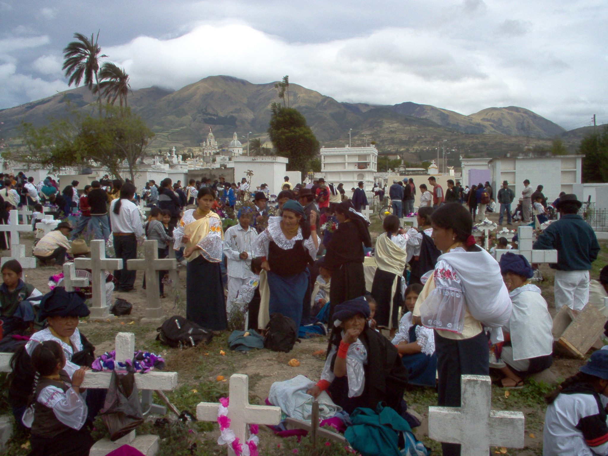 «Dia de los muertos» in the indigenous cimetery of Cotacachi, Ecuador.